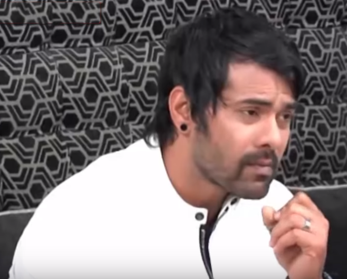 Shabbir from the sets of kumkum bhagya